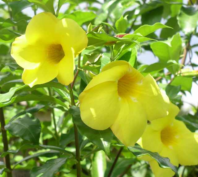 Hoa Thang Giu